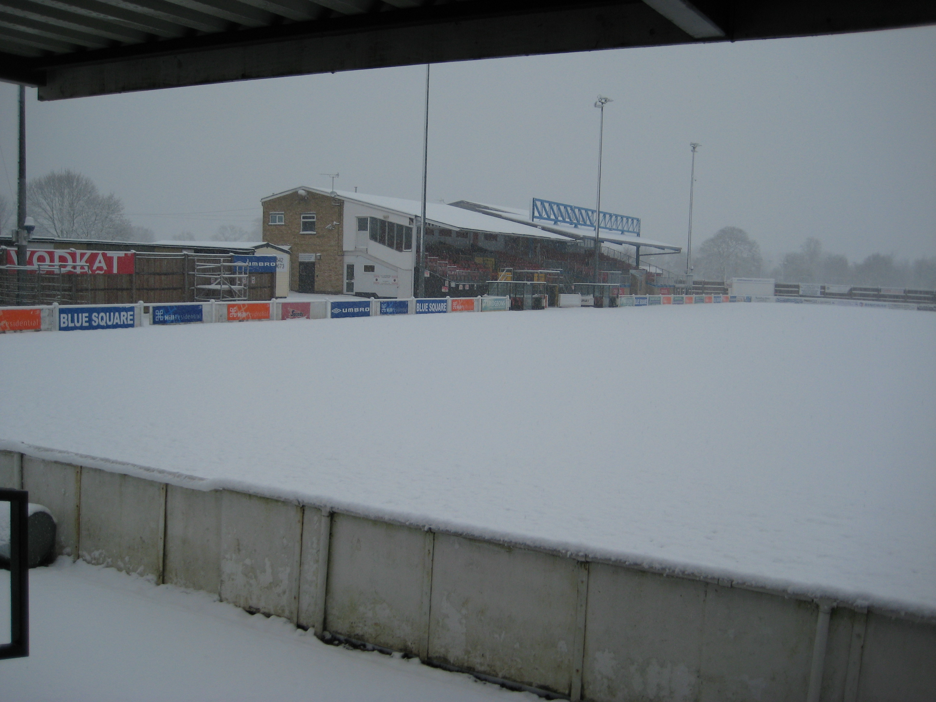 The mainstand and the 'RedGate' stand under snow at Bridge Road. The day before the game between Grays Athletic and Histon in the Conference.